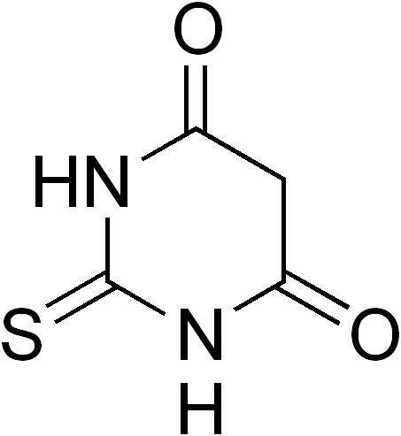 chemical structure of thiobarbituric acid